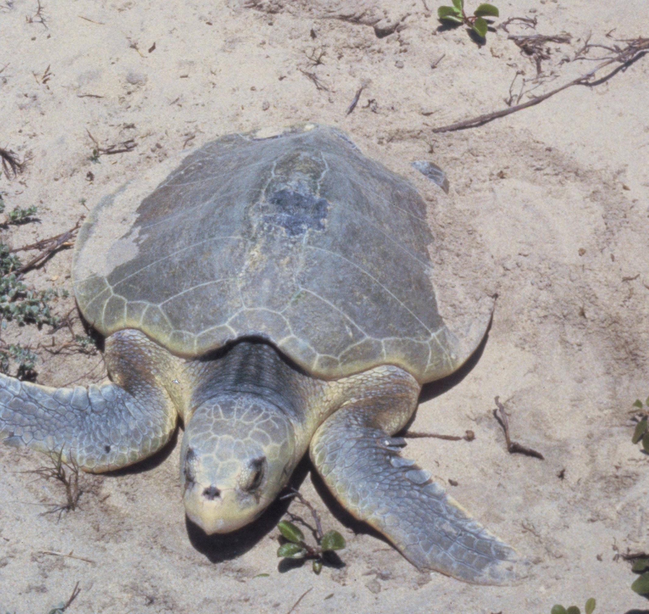 Photos and maps related to Padre Island. Padre Island National Seashore - Kemps Ridley Sea Turtle